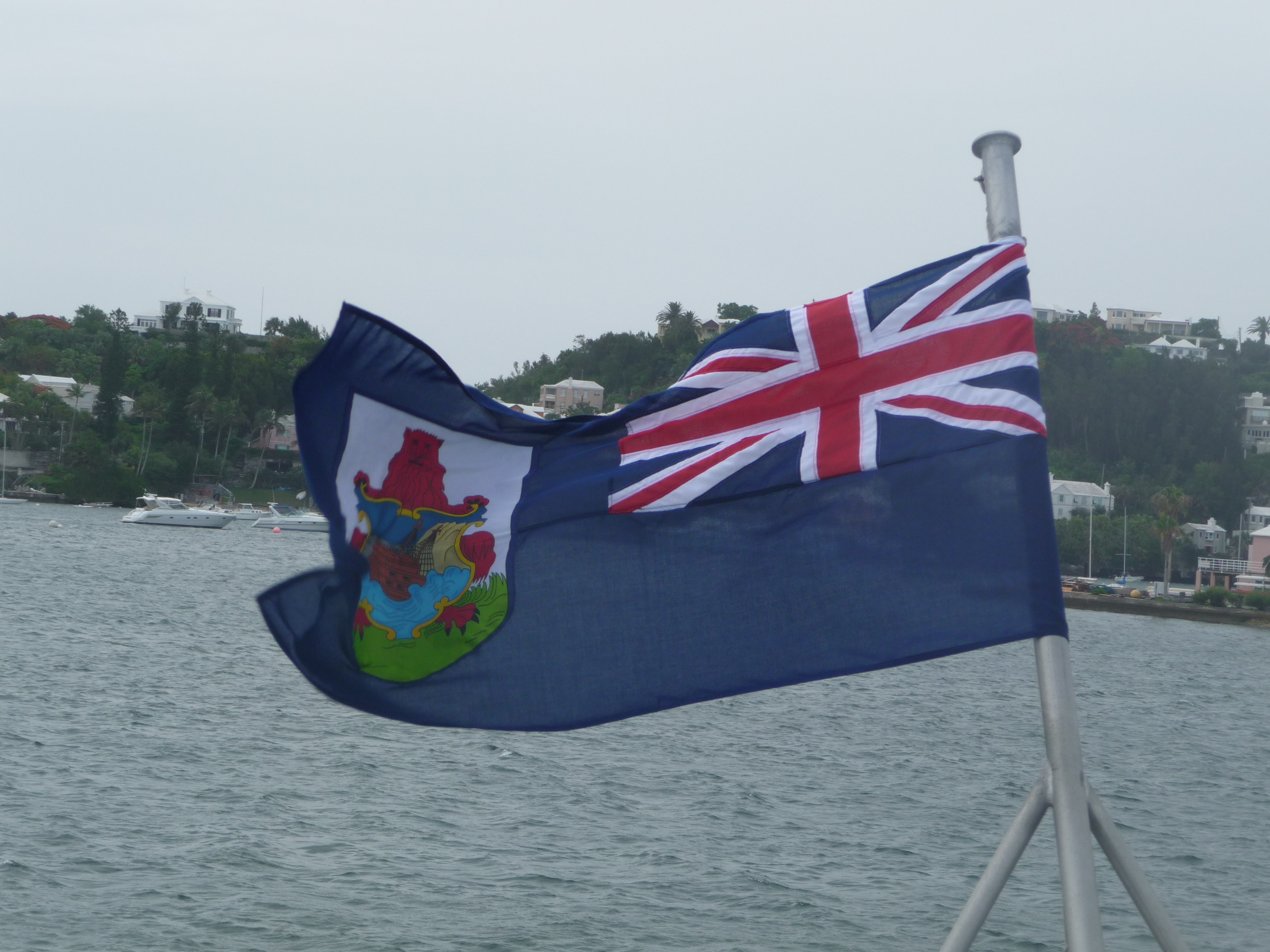 Bermudian flag on ferry, Bermuda